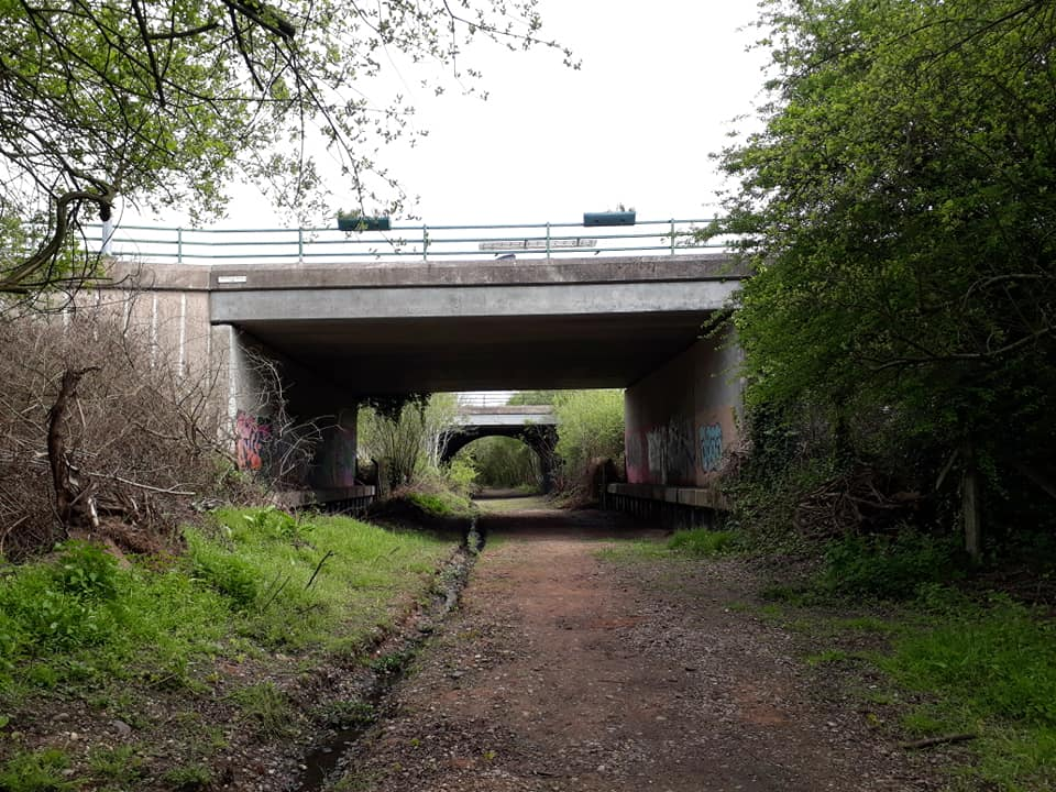 My own